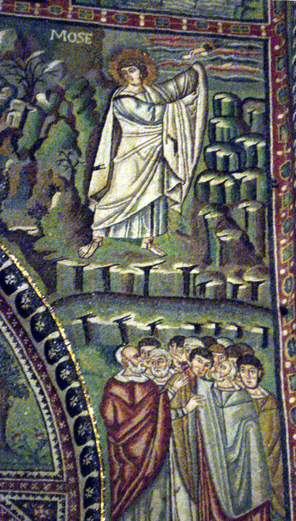 Moses at Sinai Mount